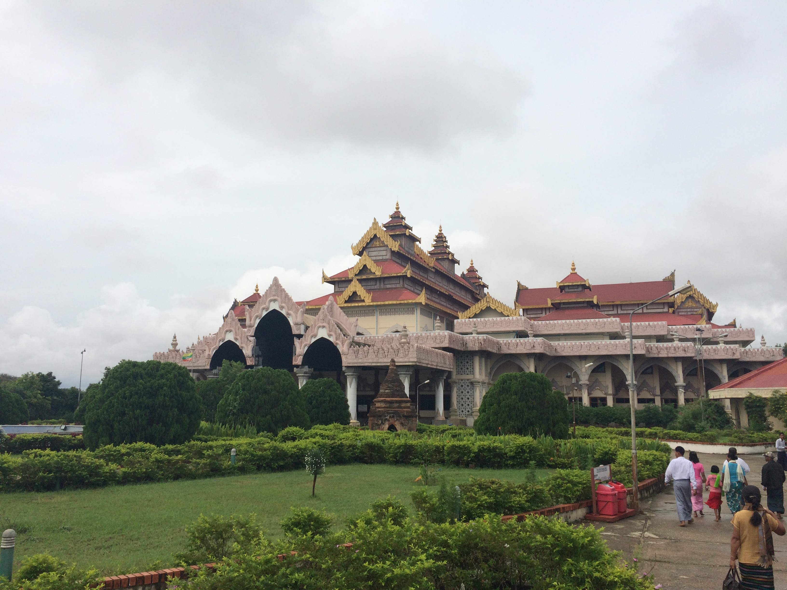 The Bagan Archaeological Museum မြန်မာဘာသာ: ပုဂံရှေးဟောင်းသုတေသနပြတိုက်